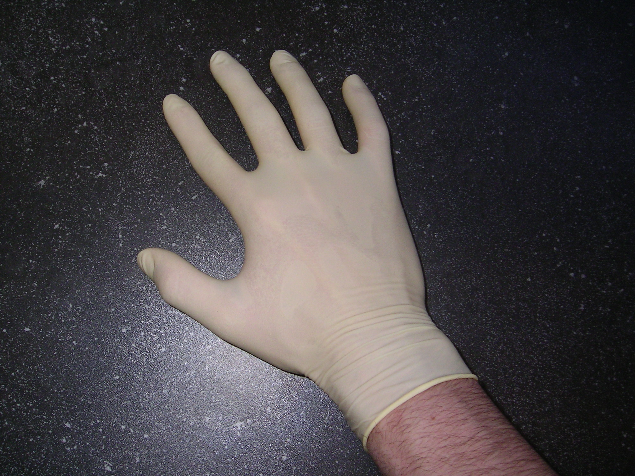 A PVC-Glove